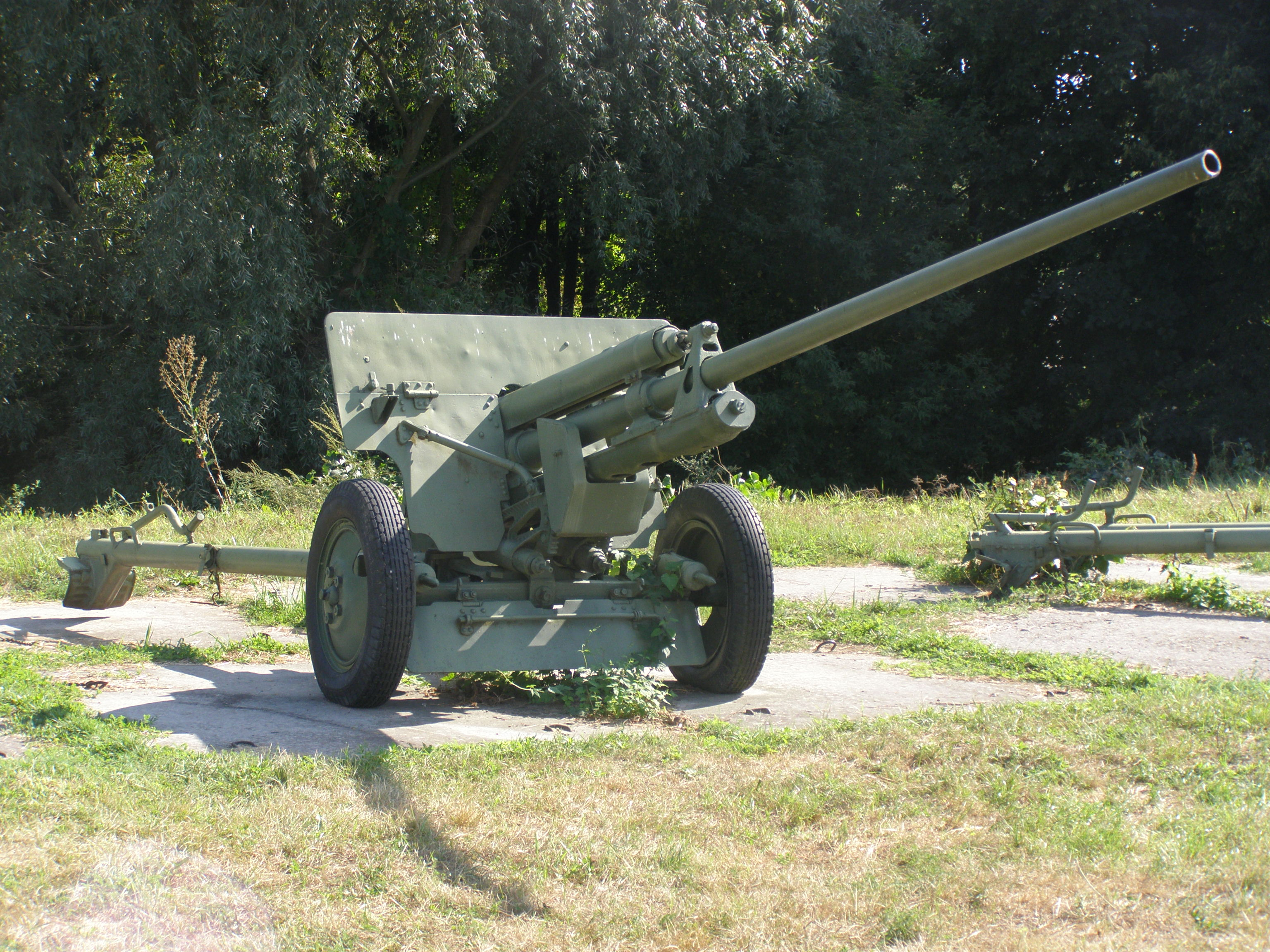 Soviet ZIS-2 57 mm gun, is displayed at the Memorial Mound of Glory in Pereiaslav-Khmelnytskyi (Ukraine)